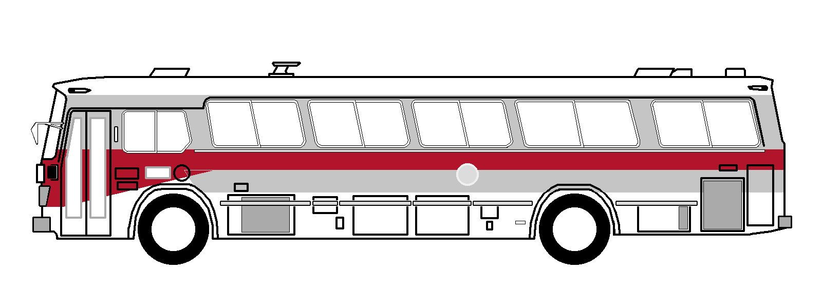 The coloring pattern of the JNR Express bus. The side view of the Fuji Heavy Industries BUS body "R13".